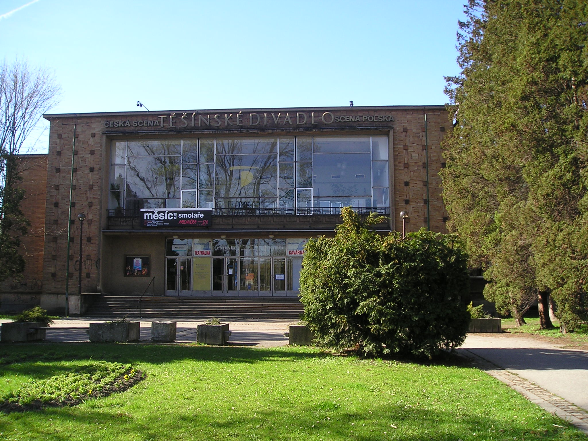 Building of Těšín Theater